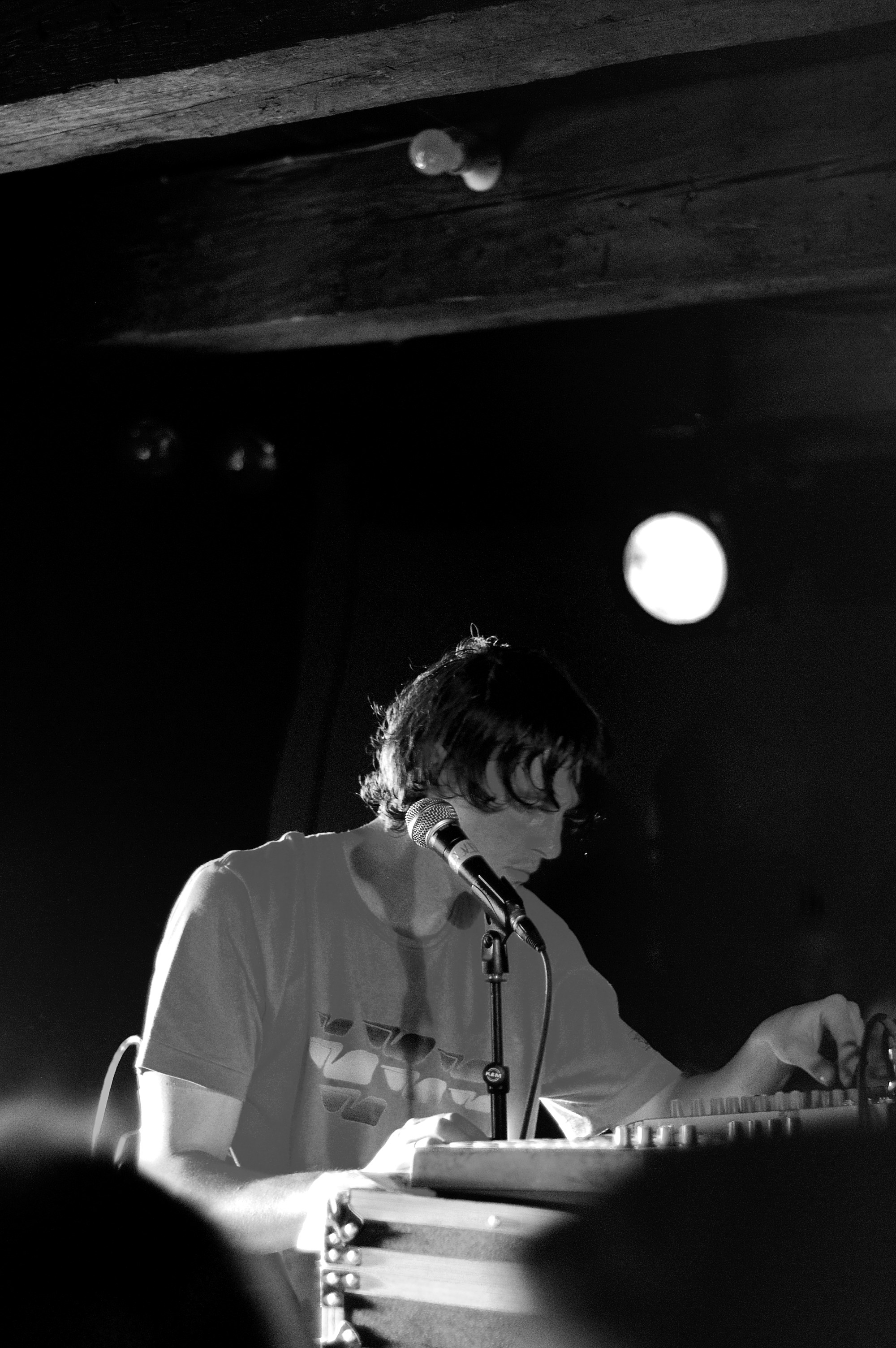 Animal Collective @ Loppen (Copenhagen)